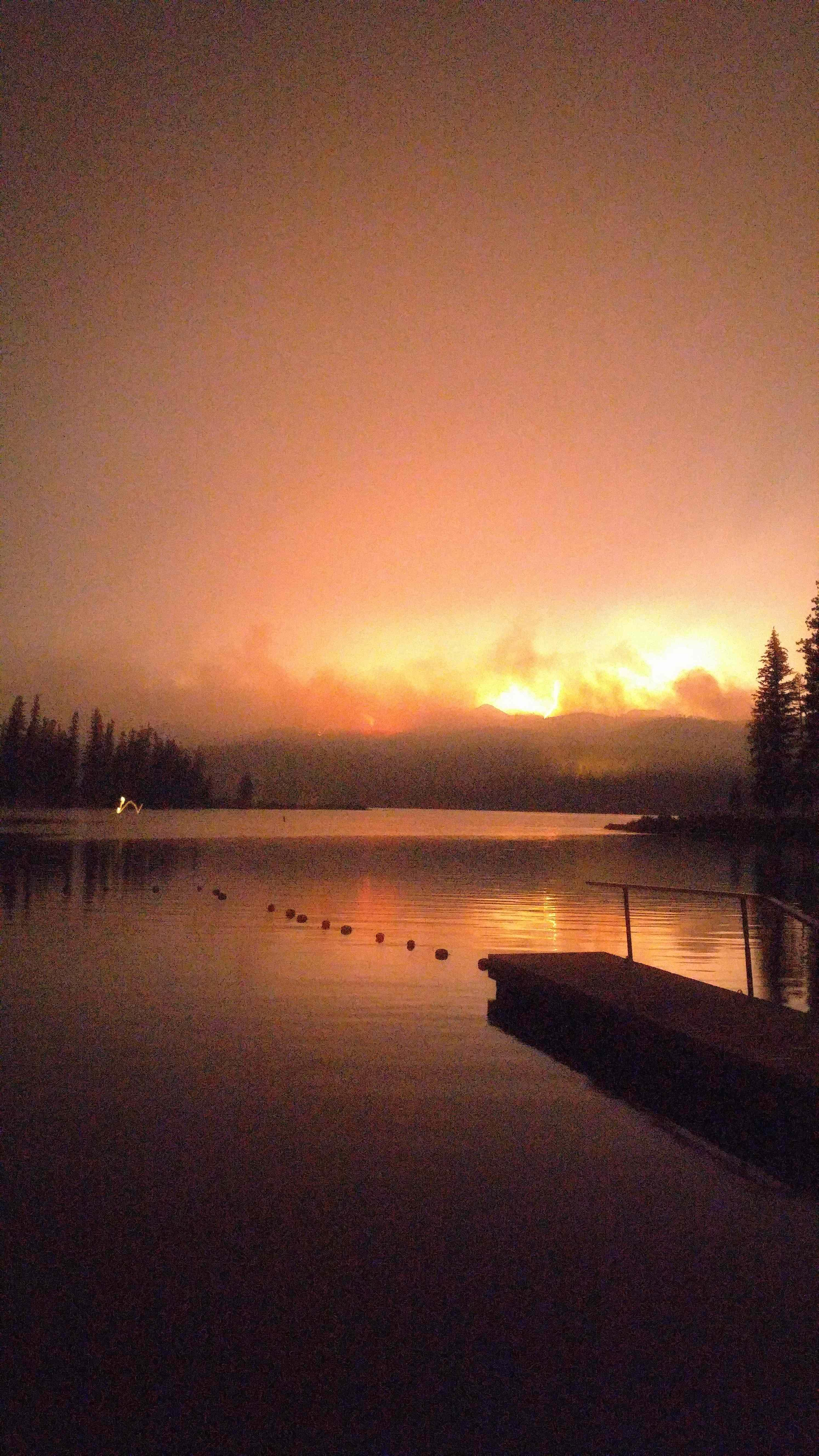 Rice Ridge Fire from Seeley Lake on the night of August 10, 2017